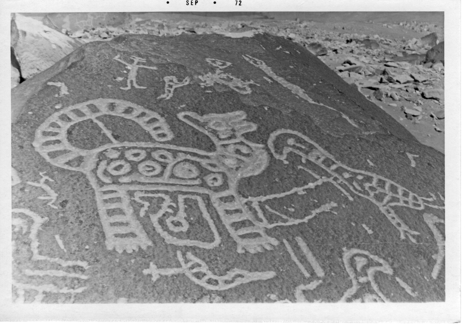 These petroglyphs are at the site of Toro Muerto in southern Peru. The site is in a desert in the Majes valley about 170 km from Arequipa. Some archaeologists believe the carvings were made by the Wari culture over 1,000 years ago, and perhaps added to by subsequent societies. I took these photos when I visited Toro Muerto in 1972. I understand the site has suffered destruction since then, and is threatened by development today. A few descriptions I have read recently say the carvings are widely scattered and are few and far between. This differs from my recollection of 35 years ago. It seemed to me there were petroglyphs everwhere you looked. hese petroglyphs are at the site of Toro Muerto in southern Peru. The site is in a desert in the Majes valley about 170 km from Arequipa. Some archaeologists believe the carvings were made by the Wari culture over 1,000 years ago, and perhaps added to by subsequent societies. I took these photos when I visited Toro Muerto in 1972. I understand the site has suffered destruction since then, and is threatened by development today. A few descriptions I have read recently say the carvings are widely scattered and are few and far between. This differs from my recollection of 35 years ago. It seemed to me there were petroglyphs everwhere you looked.